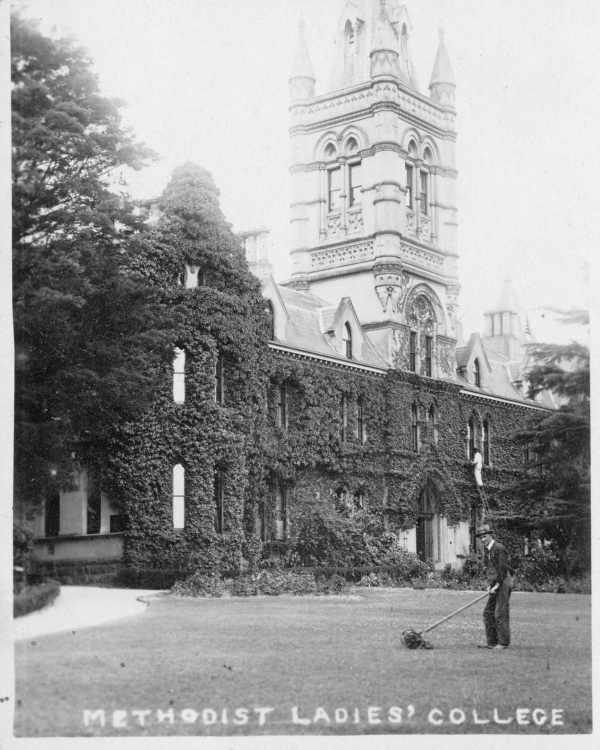 Description: Building of Methodist Ladies' College, Melbourne c. 1930.Image title:METHODIST LADIES' COLLEGE